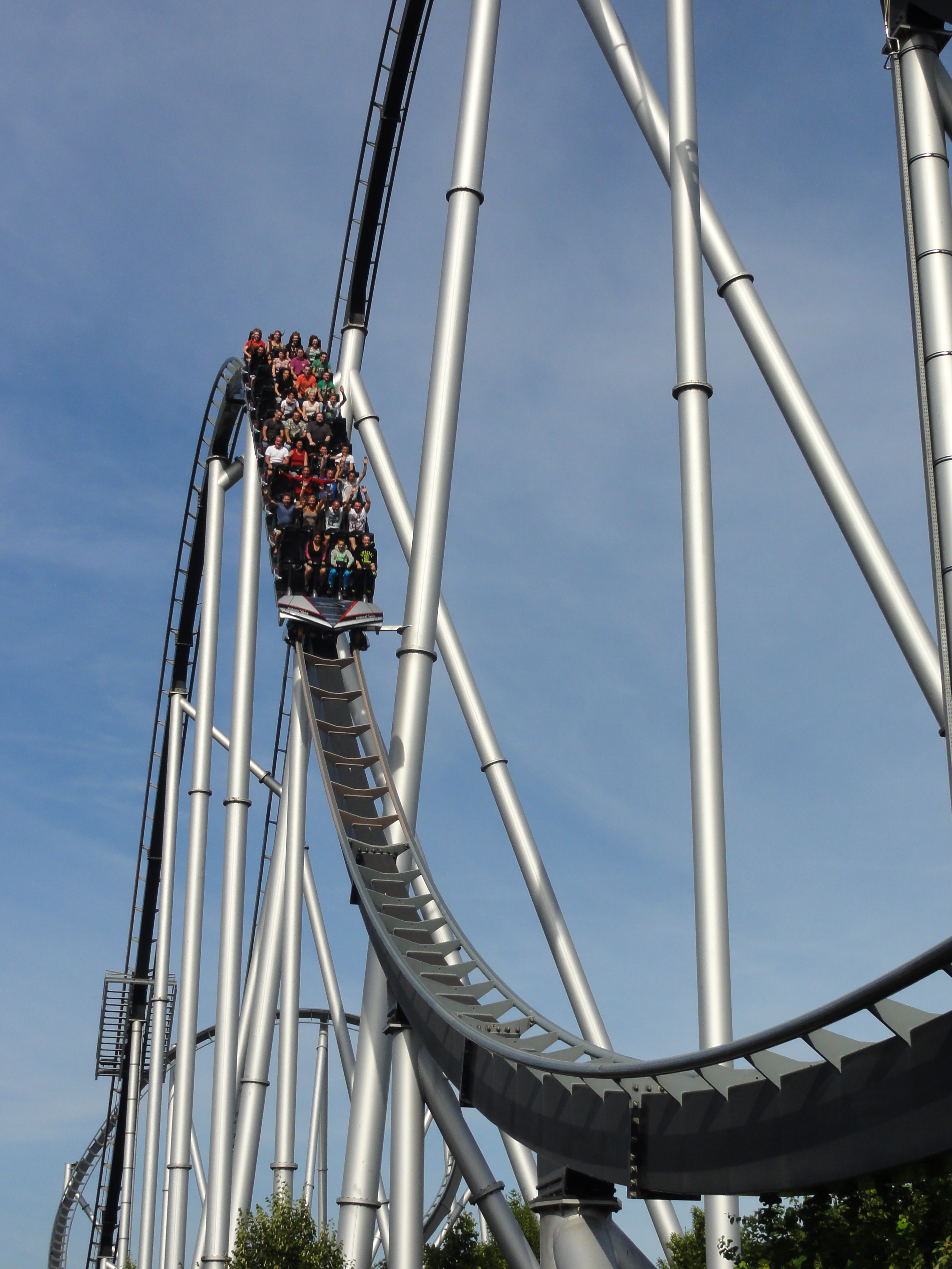 Silver Star, Europa-Park, Rust, Baden-Württemberg, Germany.